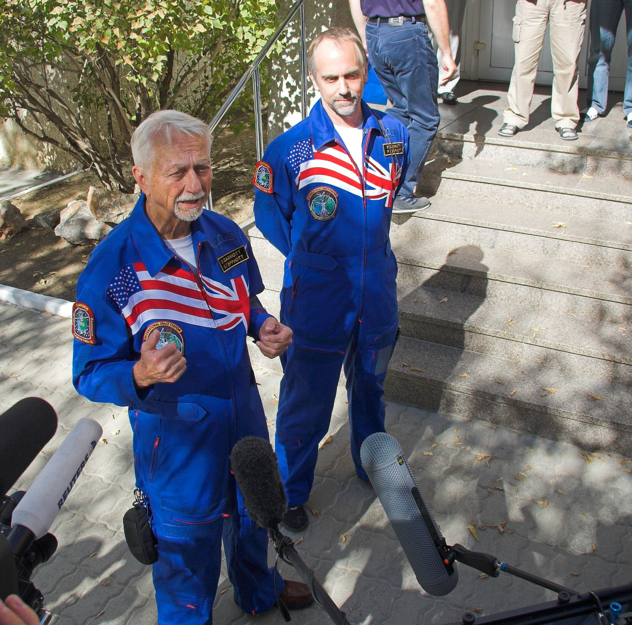 JSC2008-E-121925 (8 Oct. 2008) --- Former NASA Skylab and space shuttle astronaut Owen Garriott (left) talks to reporters outside the Cosmonaut Hotel crew quarters in Baikonur, Kazakhstan Oct. 8, 2008 as his son, Richard Garriott looks on. The younger Garriott is a spaceflight participant flying to the International Space Station under a commercial agreement with the Russian Federal Space Agency and will become the first second generation American astronaut to fly in space when he is launched Oct. 12 on a Soyuz TMA-13 spacecraft to the orbital complex.